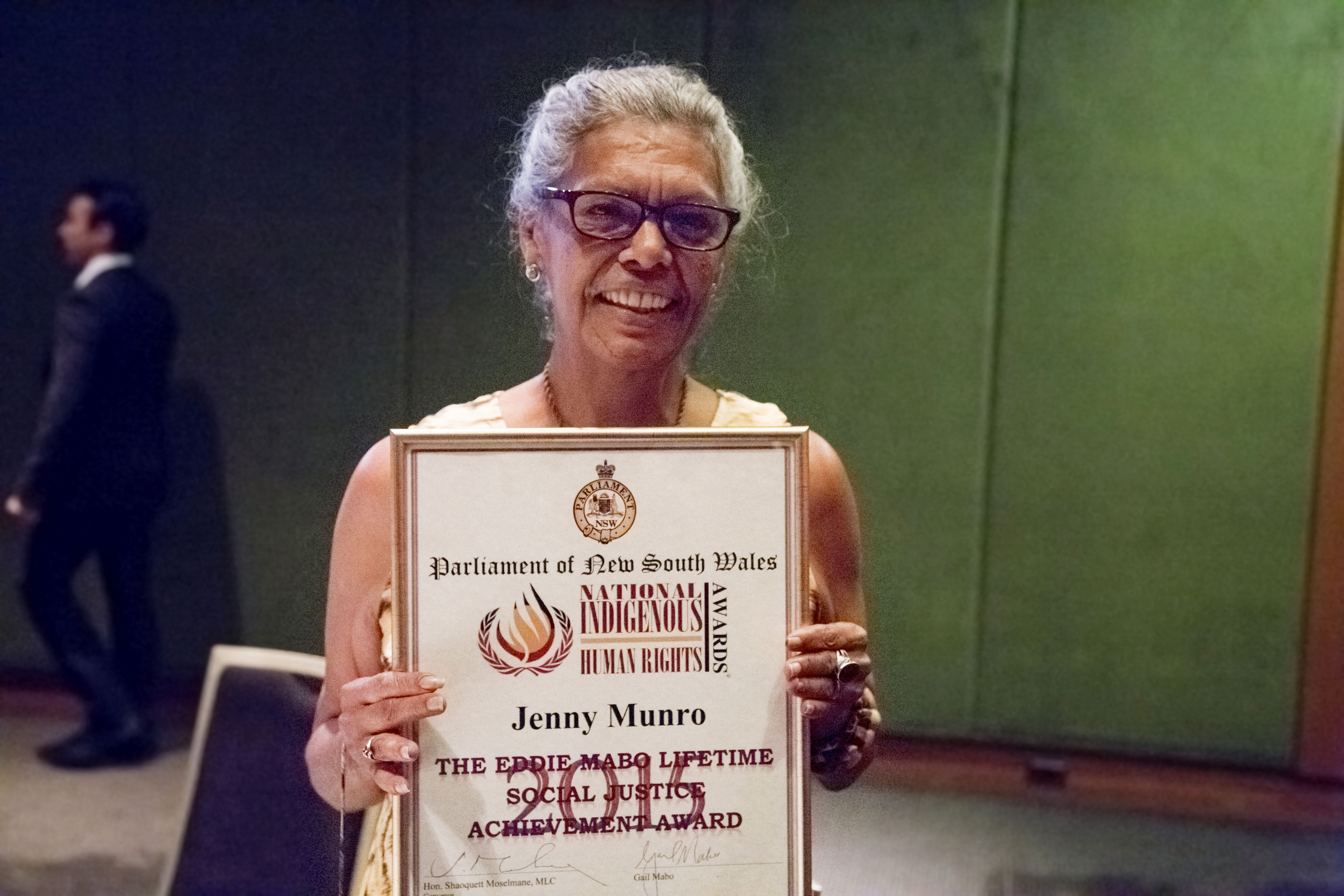 Jenny Munro holds her framed award at the National Indigenous Human Rights Awards in Sydney, 2015. Photo taken at NSW State Parliament House